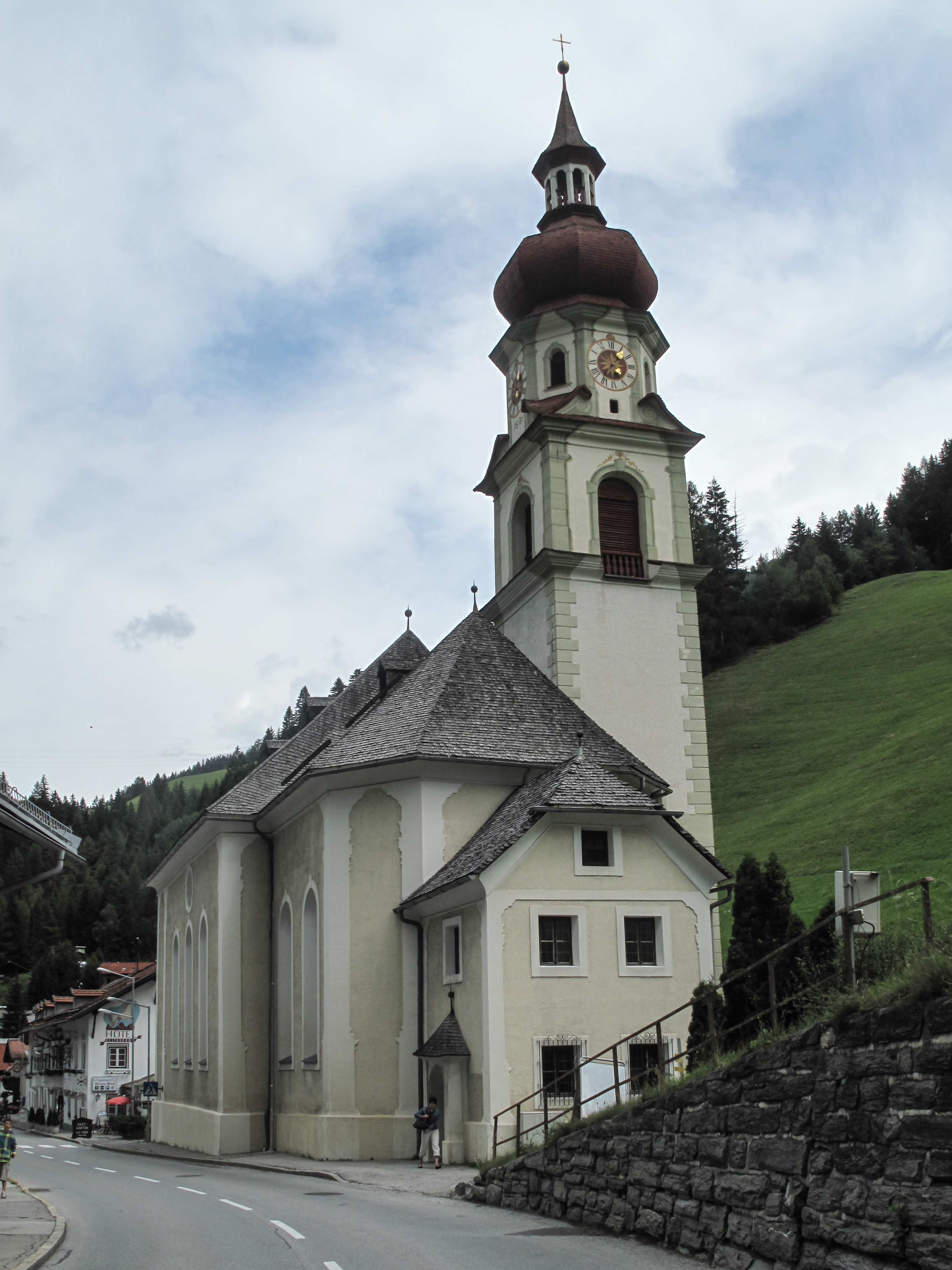 Gries am Brenner, church: Pfarrkirche Mariä Heimsuchung